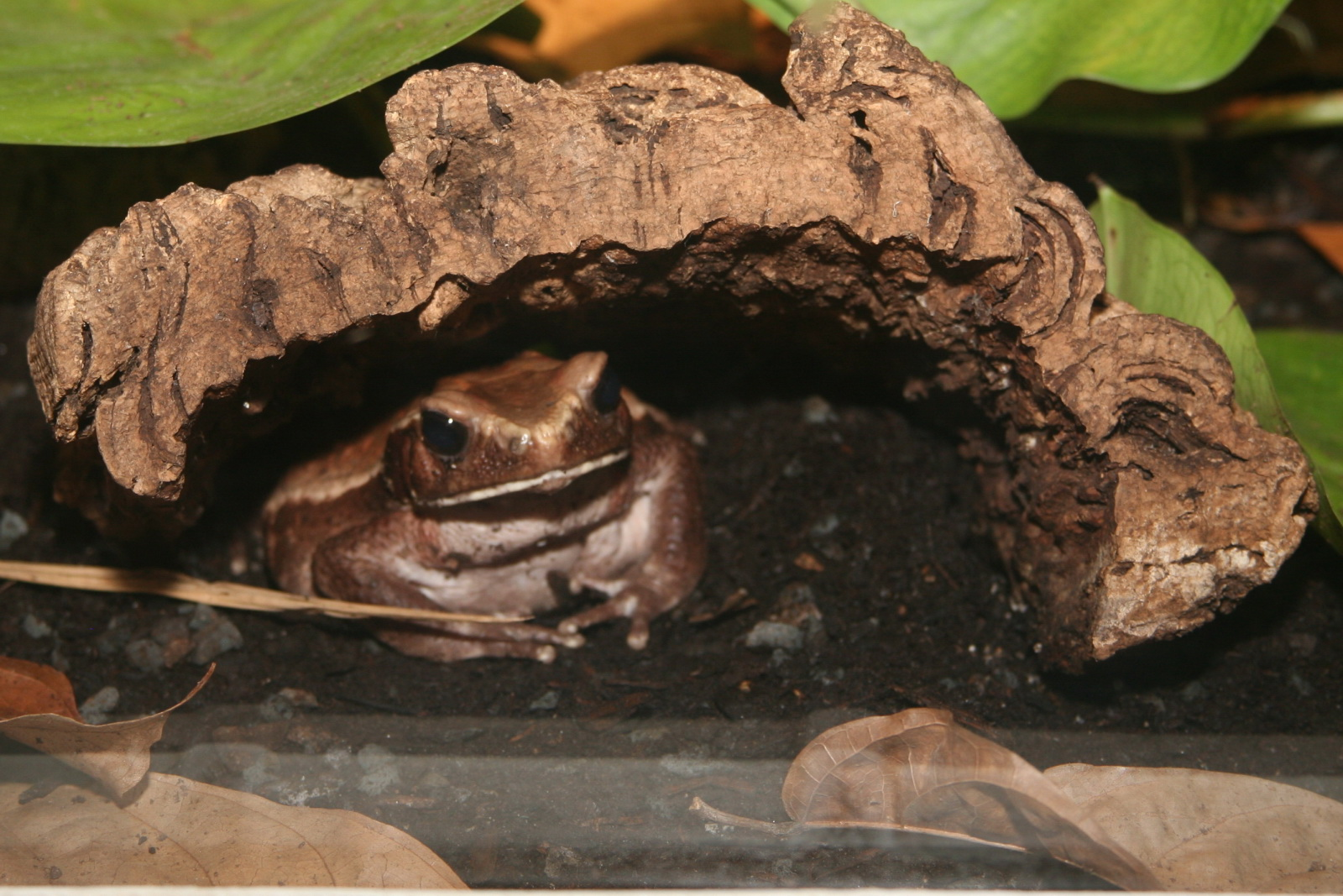 Smooth Sided Toad (Bufo guttatus)